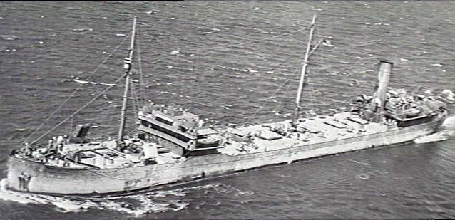 US-registered Cities Service Boston, which ran aground off the New South Wales coast, near Bass Point, on 16 May 1943. Reference: [1]